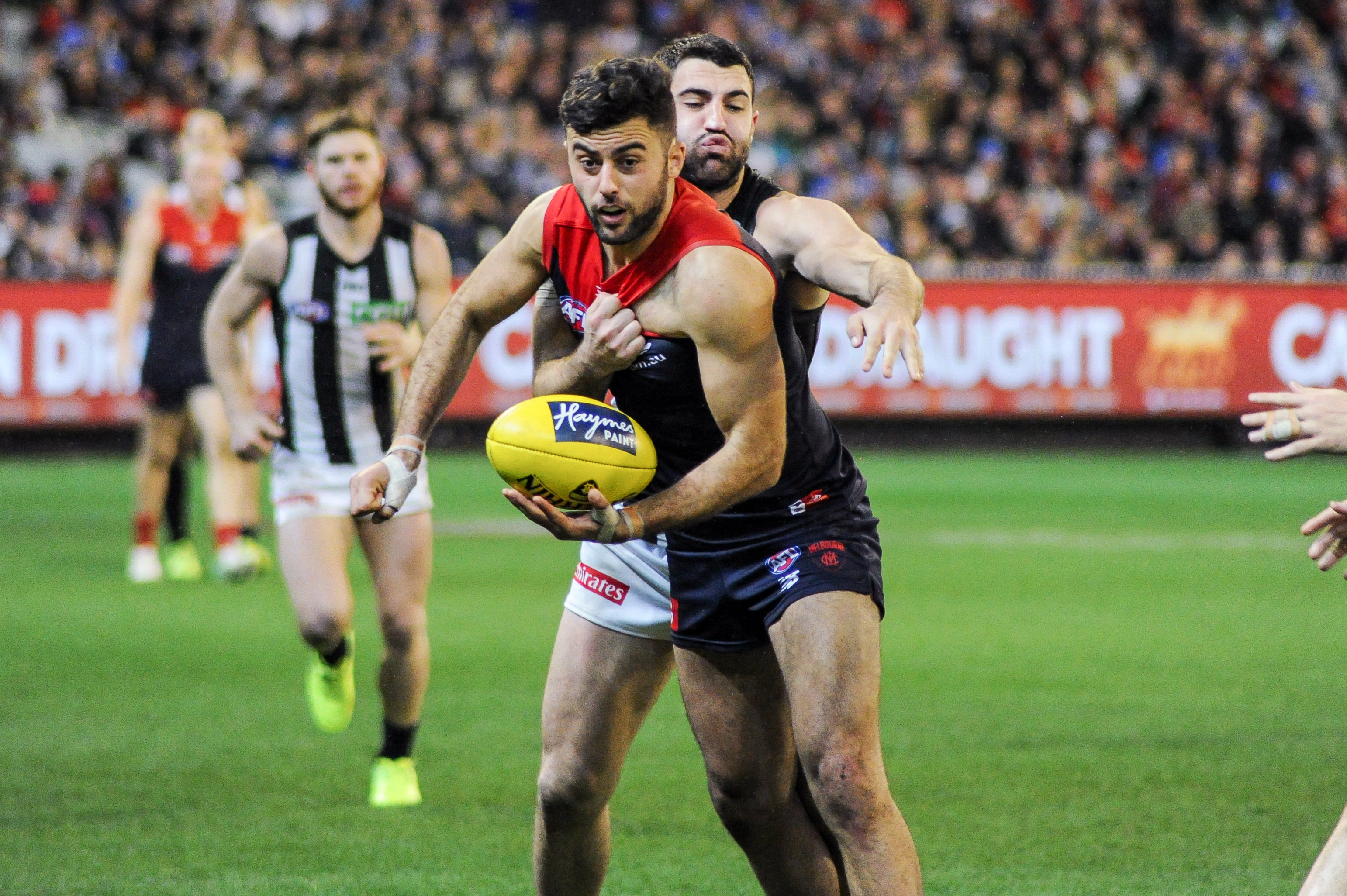 Christian Salem handballing away from Alex Fasolo during the AFL round twelve match between Melbourne and Collingwood on 12 June 2017 at the Melbourne Cricket Ground in Melbourne, Victoria.